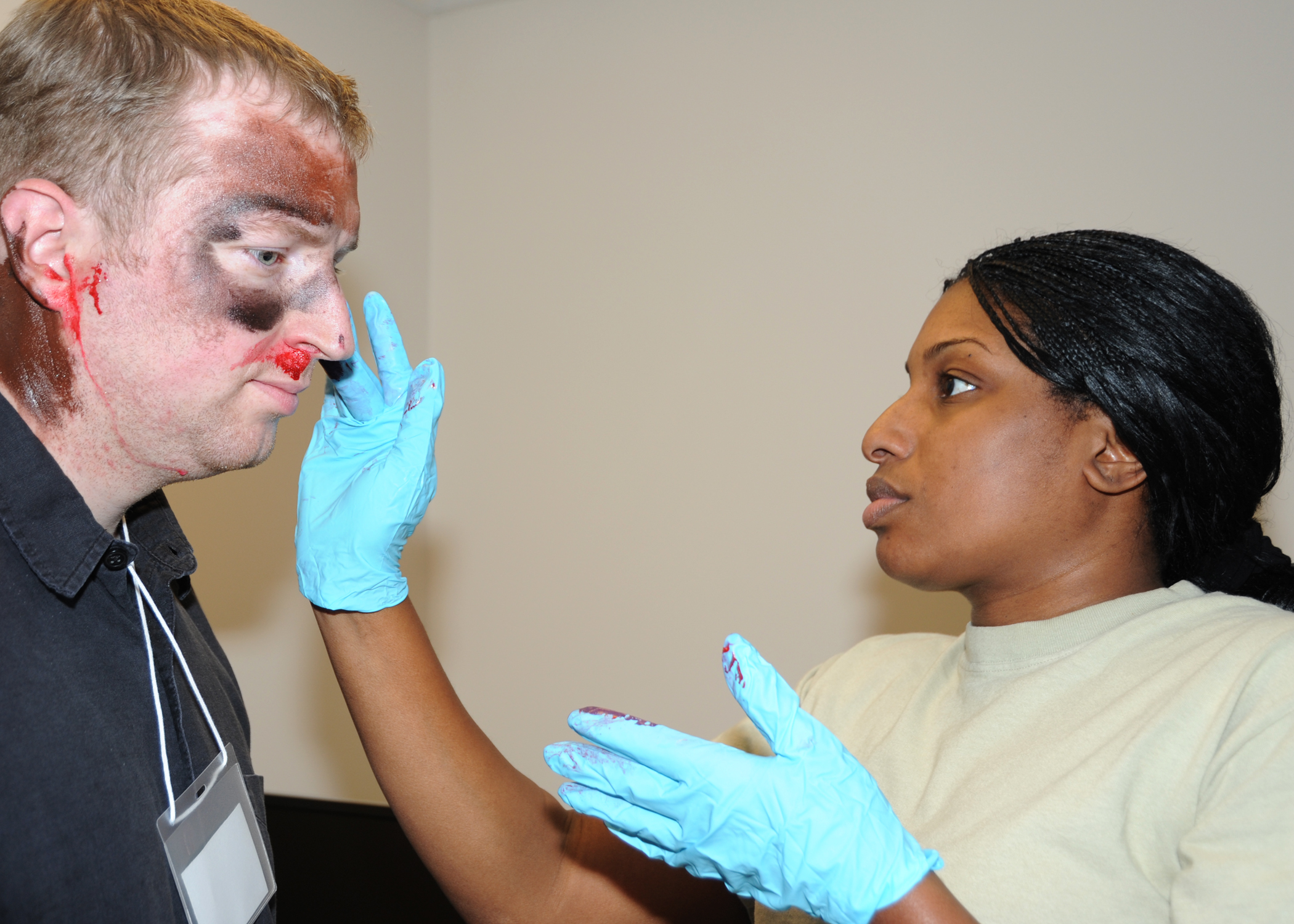 Senior Airman Lisa Sam, a medical technician with the 440th Airlift Wing Medical Squadron applies paint to the face of Aaron Schaak before a Mass Casualty exercise at Pope Air Force Base, N.C., April 17 2010. Schaak who is a volunteer with the Fayetteville based Civil Air Patrol Composite Squadron, was in charge of the Civil Air Patrol cadet volunteers that came out to participate as casualties in the Medical Squadron’s exercise. “Participating in activities like this help the cadets with promotion” Schaak explained. Several cadets were not only interested in being promoted, but also in learning more about the Air Force as a possible career. (U.S. Air Force photo/ Staff Sergeant Jacqueline Pender)